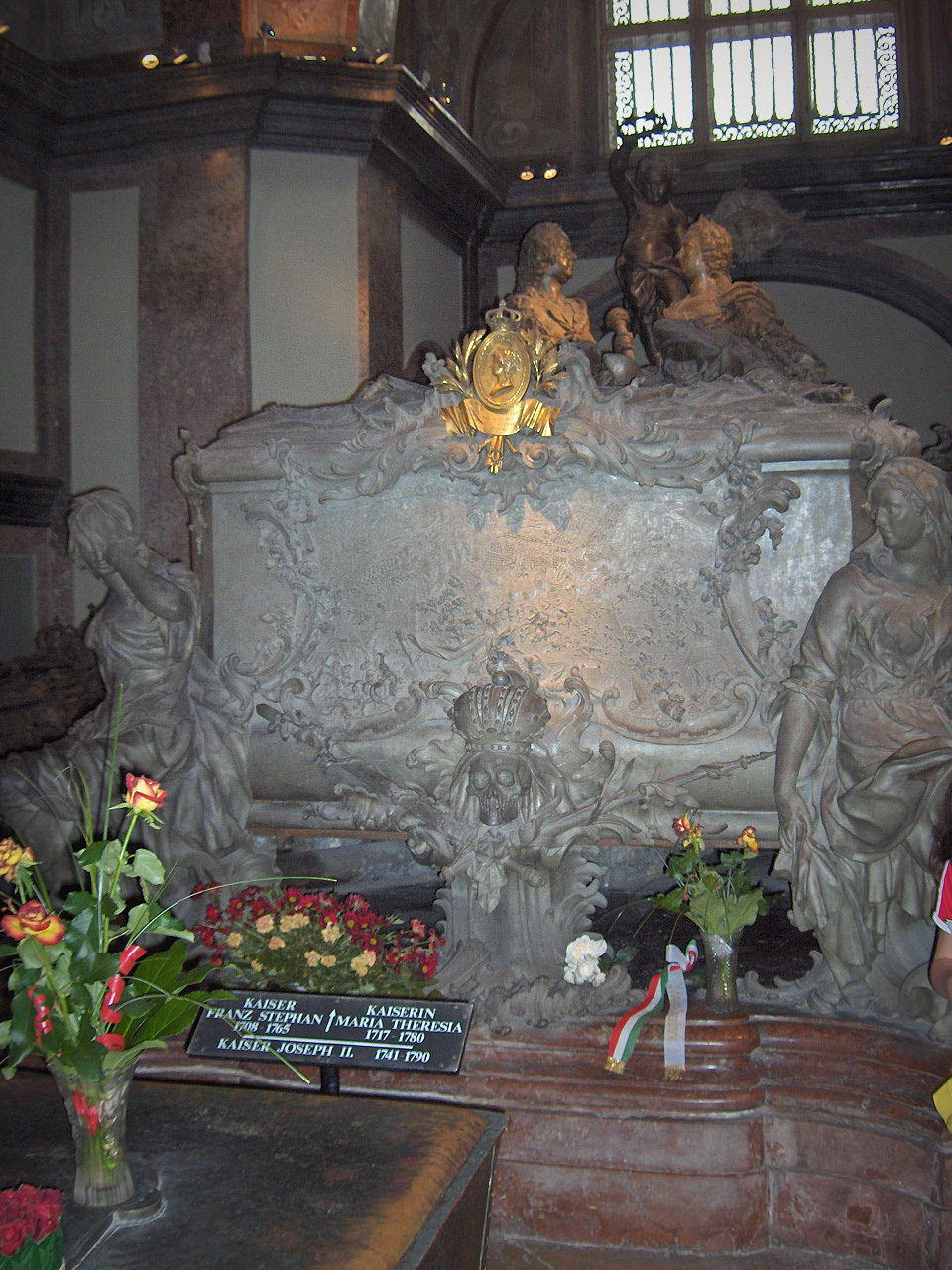 Tomb of Empress Maria Theresa (13 May 1717 - 29 November 1780) ; Kaisergruft, Vienna